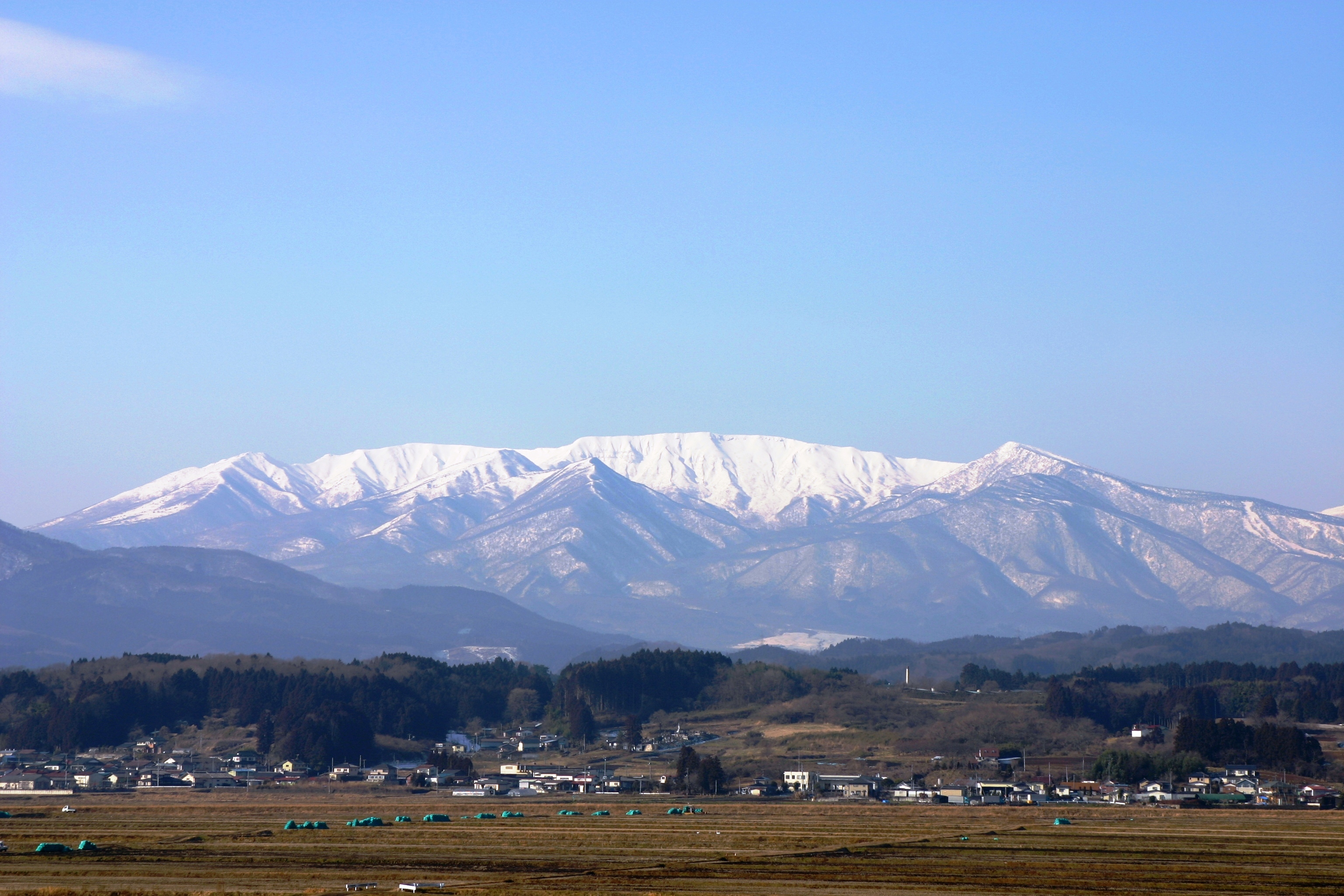 Zaō Mountains as seen from the west. Taken from Murata Town, Miyagi Prefecture, Japan.